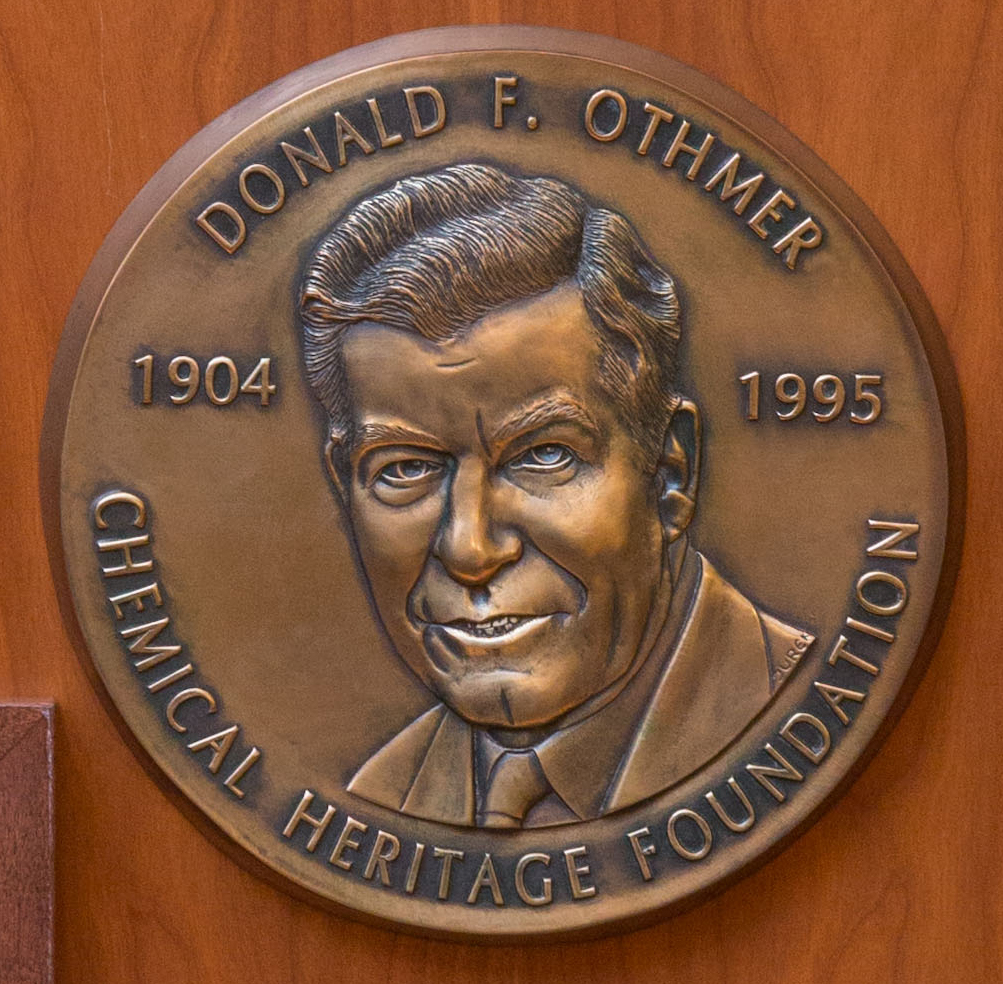 Photograph of the Othmer Gold Medal, Science History Institute, Philadelphia, PA, USA. The Othmer Gold Medal was first awarded in 1997, in commemoration of chemist Donald Othmer (1904–1995). This impression of the medal was given to chemist Ralph Landau in 1997.